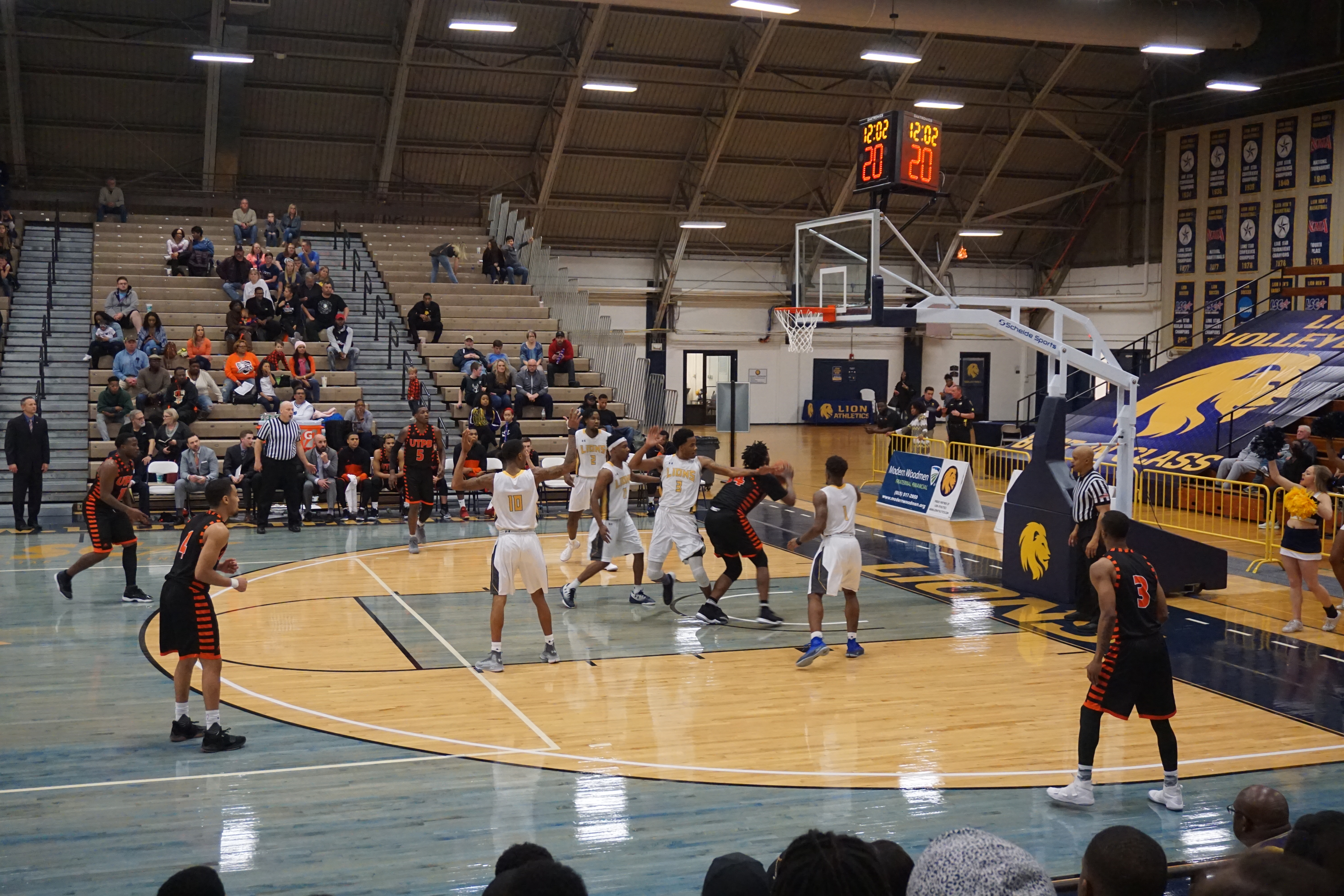 In-game action during the Texas–Permian Basin Falcons vs. Texas A&M–Commerce Lions men's basketball game at the Field House in Commerce, Texas (United States). A&M–Commerce won 85–56.